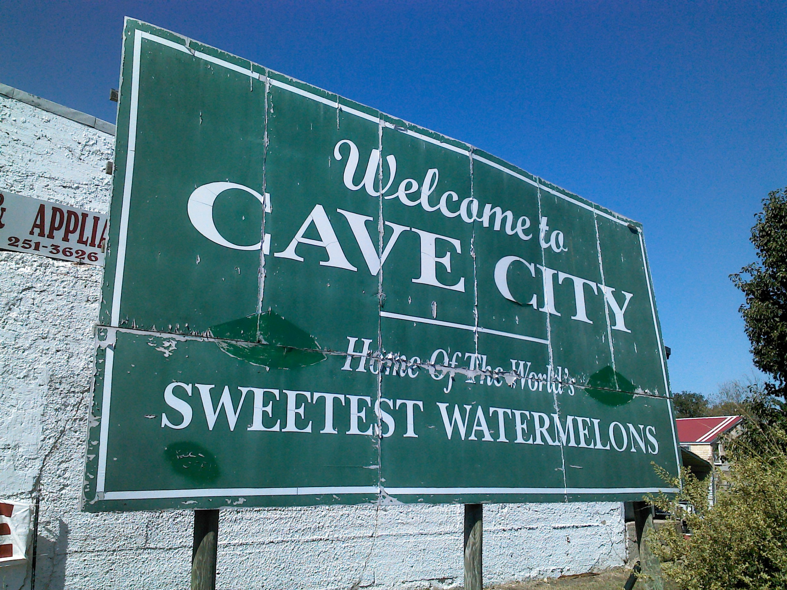 This is the old sign seen entering Cave City, Arkansas, from the south on Rte. 167. It has now been replaced with a brand new version, and is lit up at night.